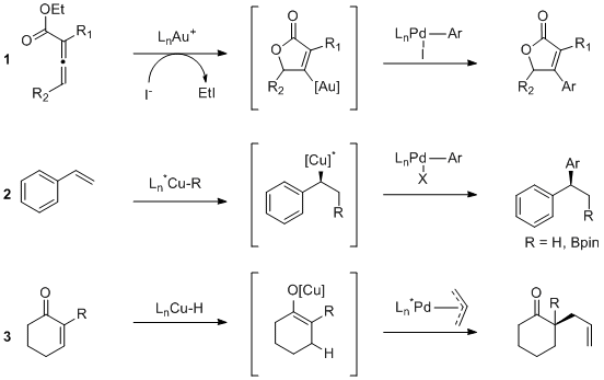 Alternative pronucleophiles used in heterobimetallic catalysis